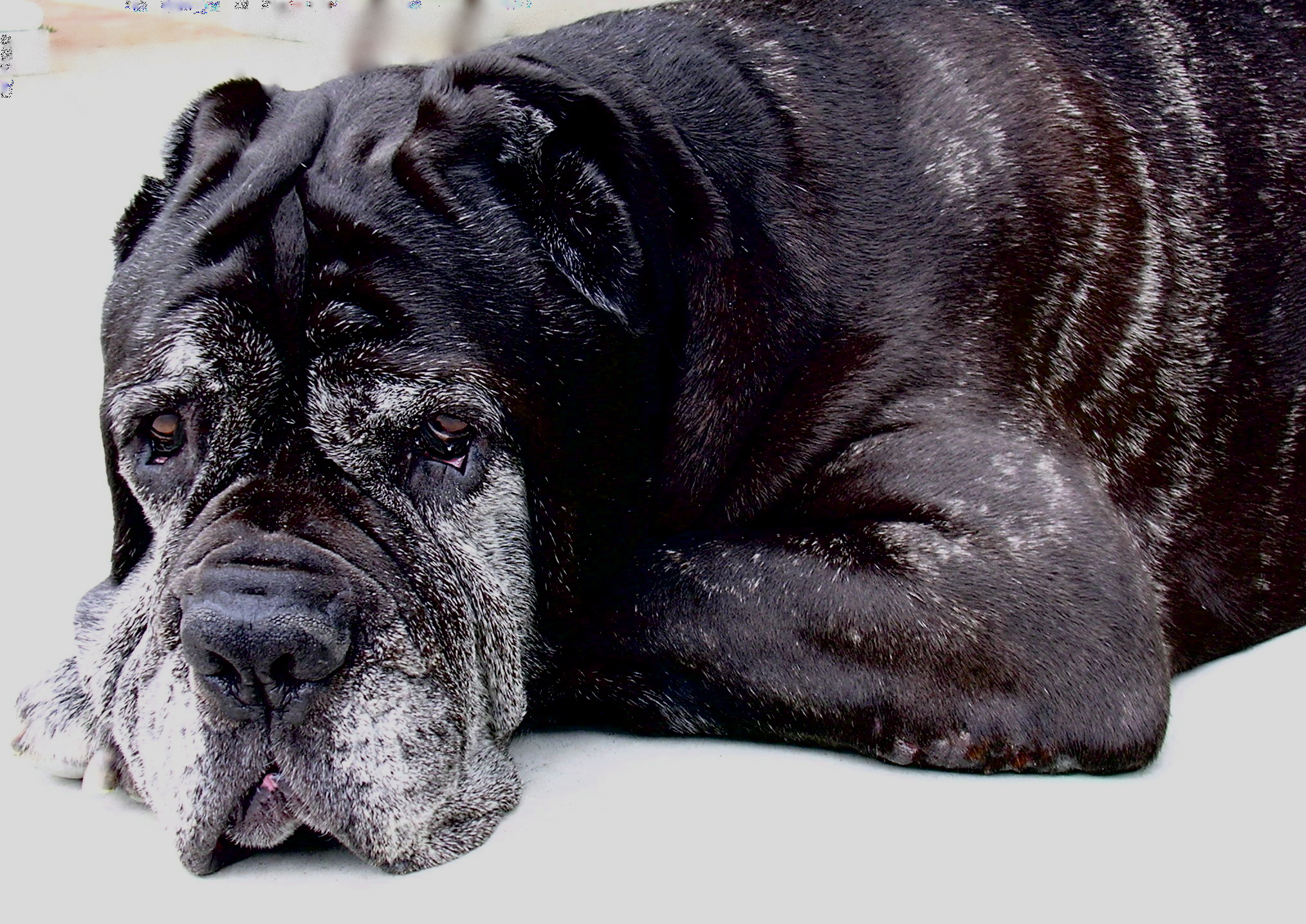 10-year-old Neapolitan Mastiff. Photo taken by Lisa M. Herndon Source: Digital 4 megapixel file Date: 2005 Author: Lisa M. Herndon